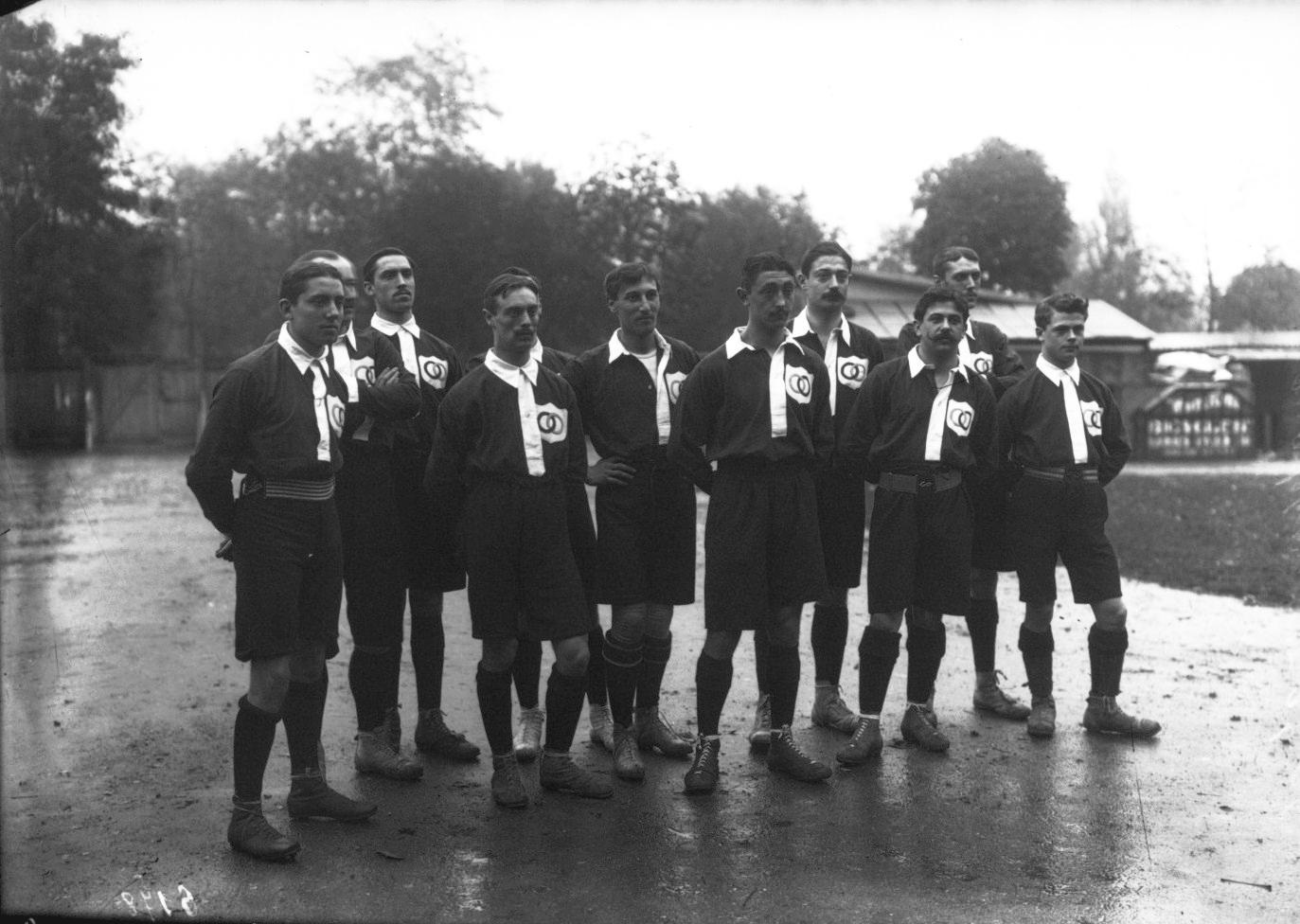 France - England, 11-01-1906, Paris. France National Football Team.